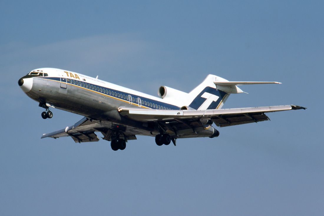 Trans Australia Airlines Boeing 727-76 on final approach at Brisbane Airport